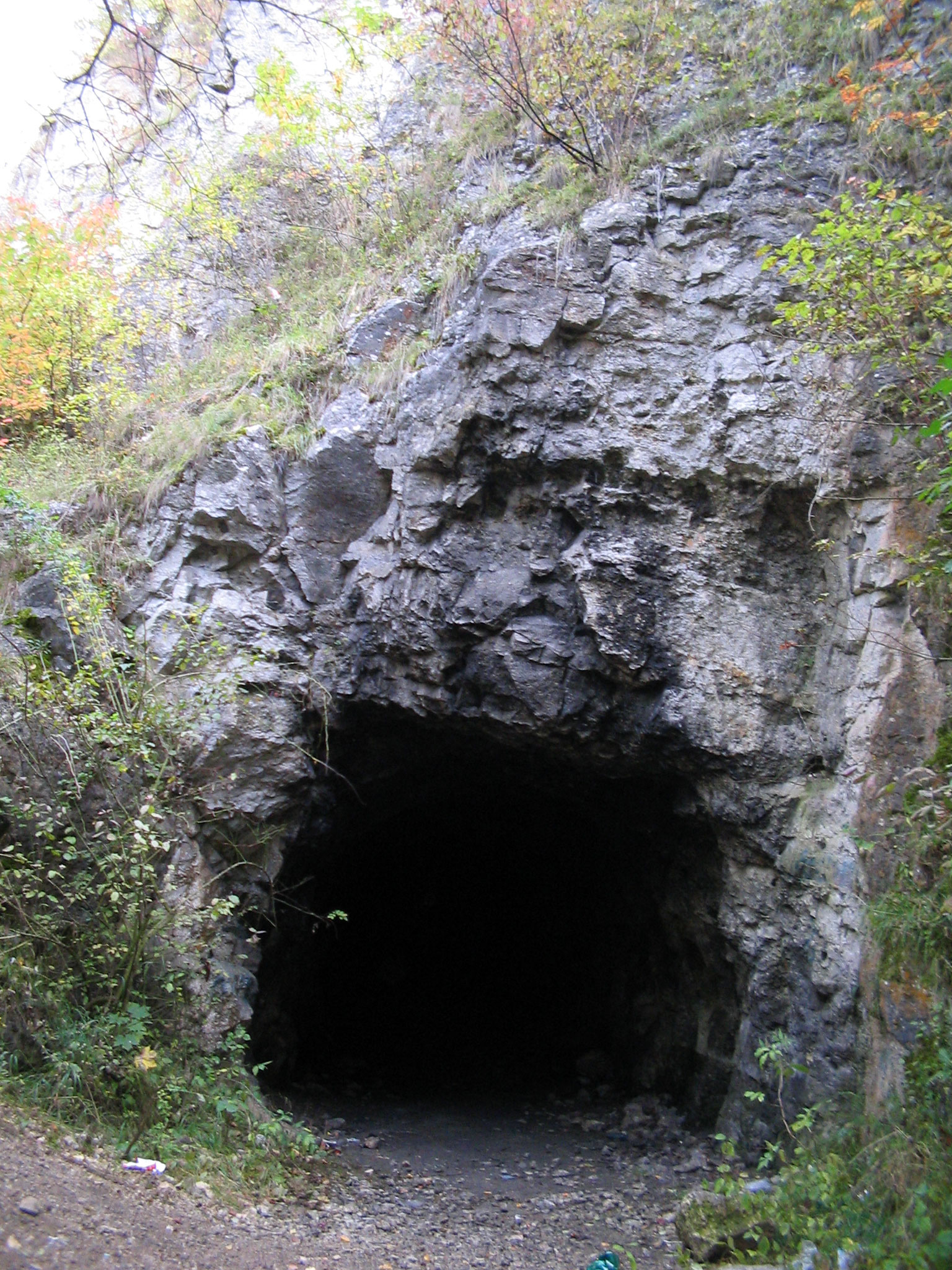 Stránská skála in Brno, Czech Republic.